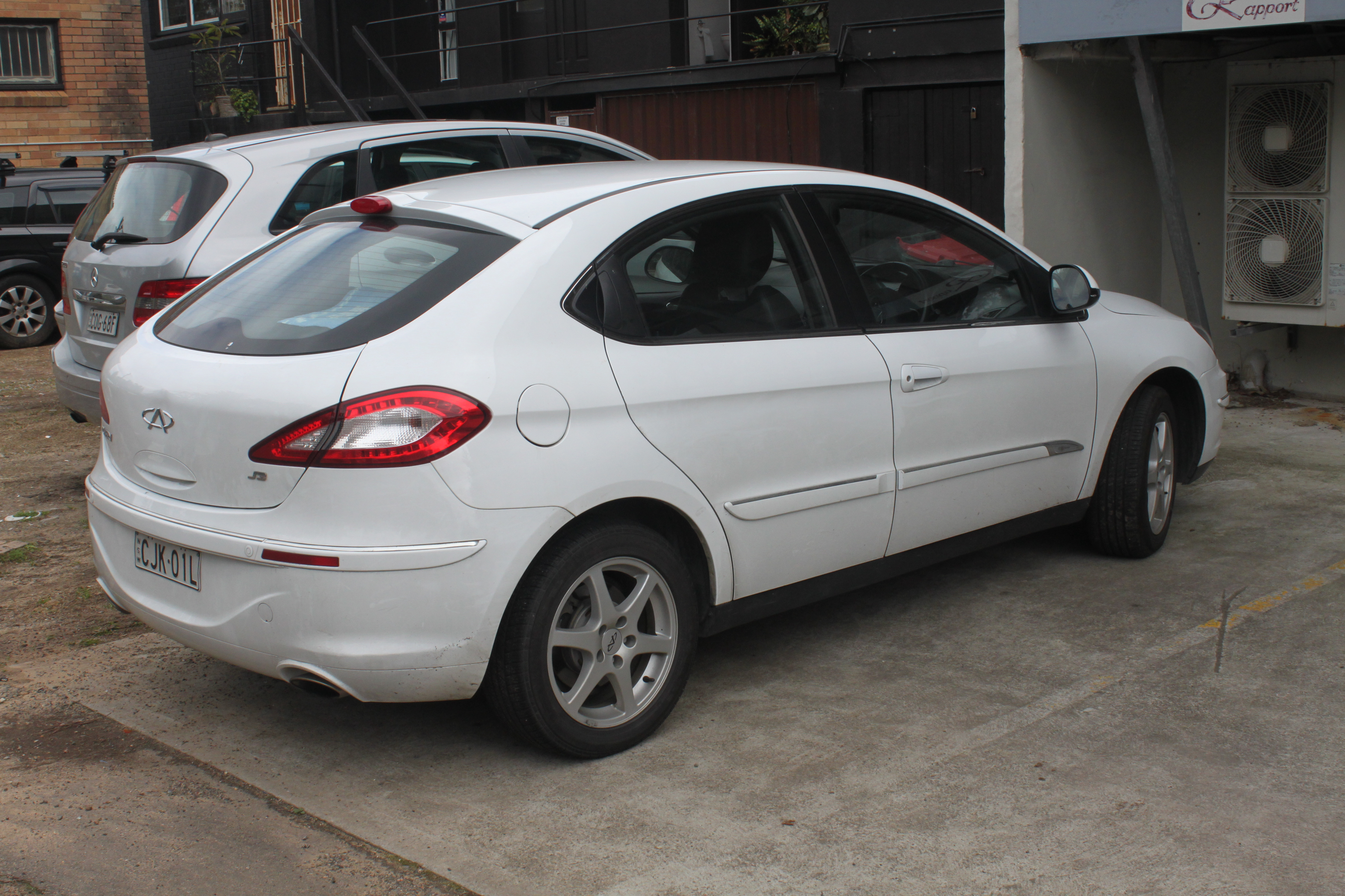 Chery J3 M1X